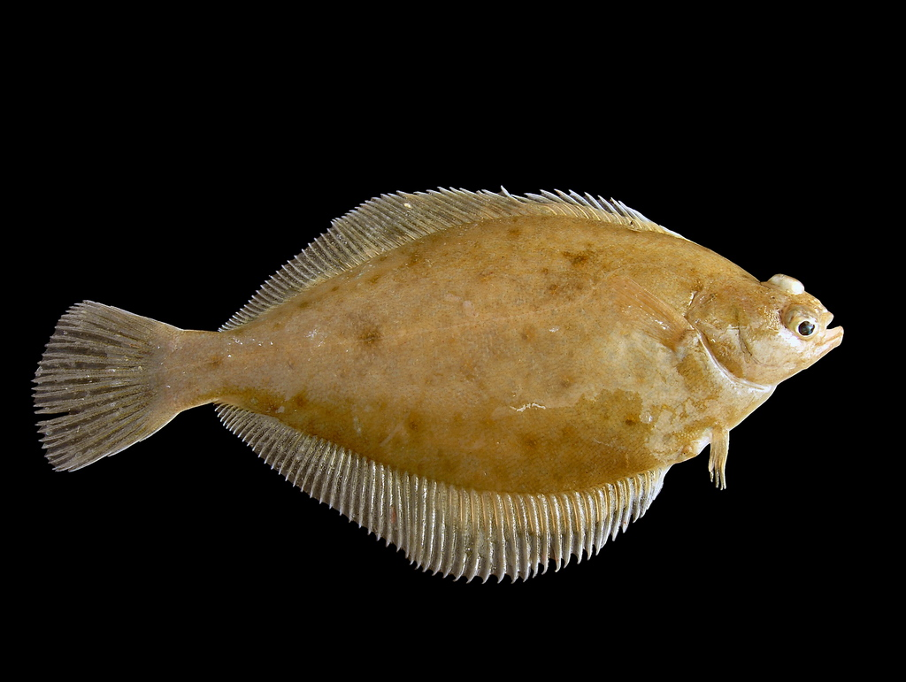 Dab on board of RV Belgica from the southern North Sea. Lab image.